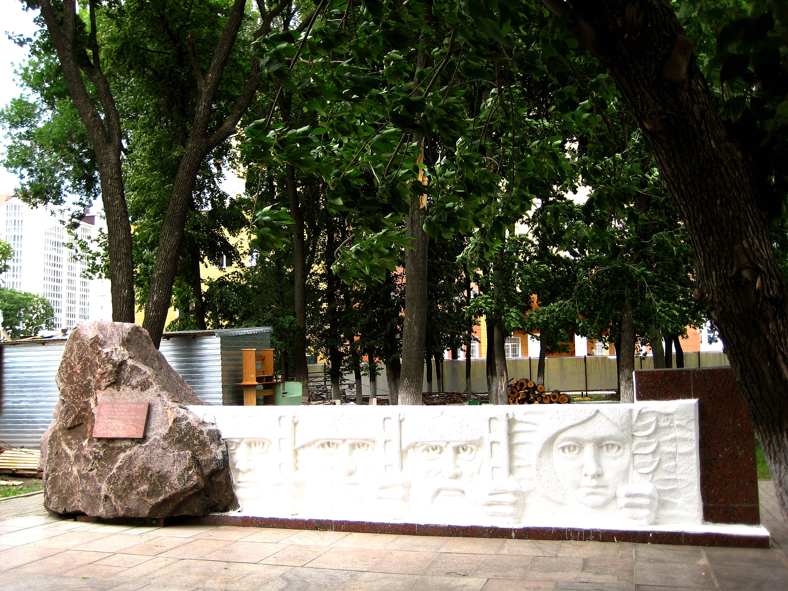 The place where was formed the 1st Regiment of communistic city of Voronezh: Revolution Avenue, Pervomaisky garden Voronezhskaya oblast